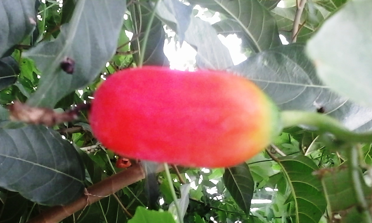 Telakochu (red)